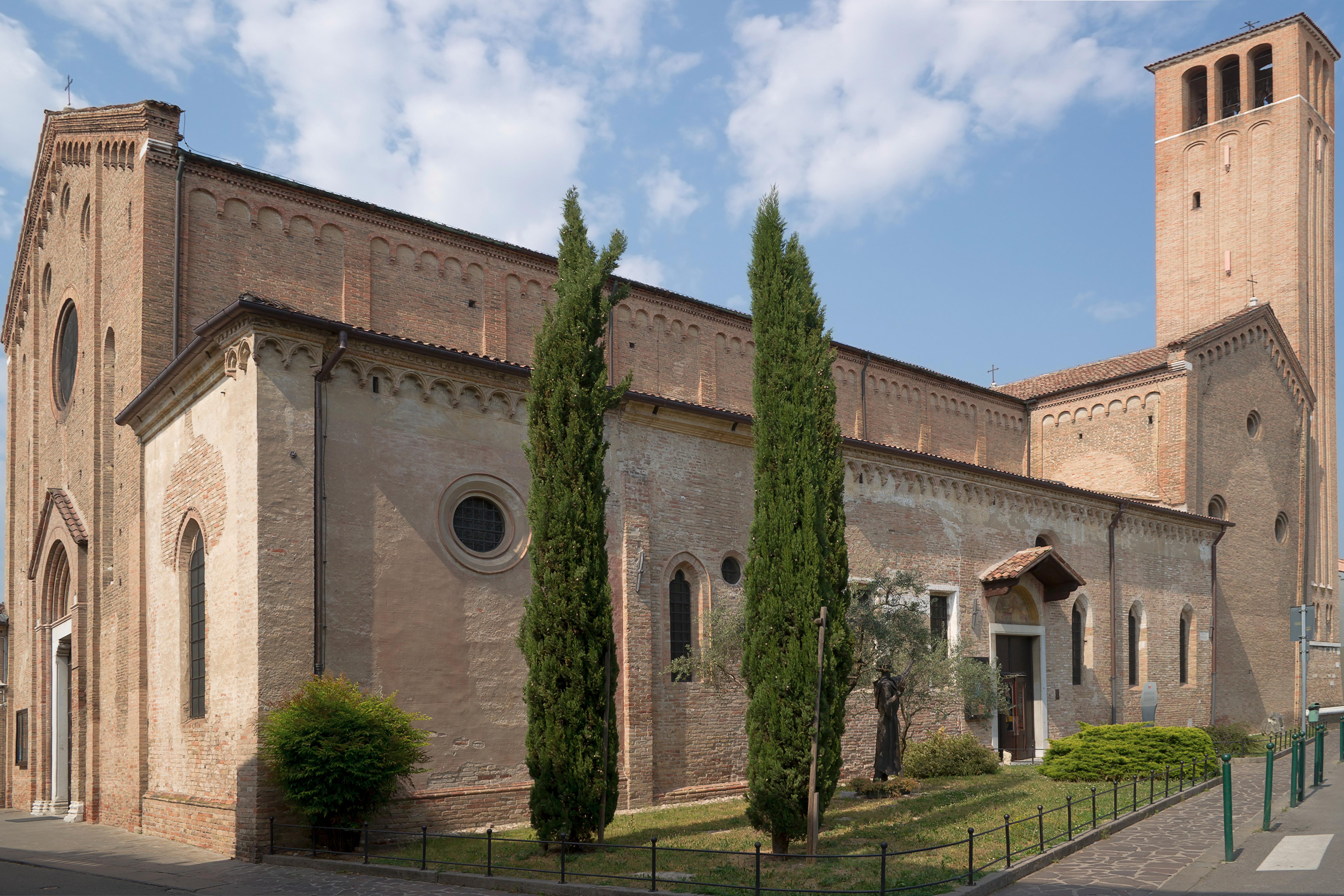 Church Convent San Francesco of Treviso.